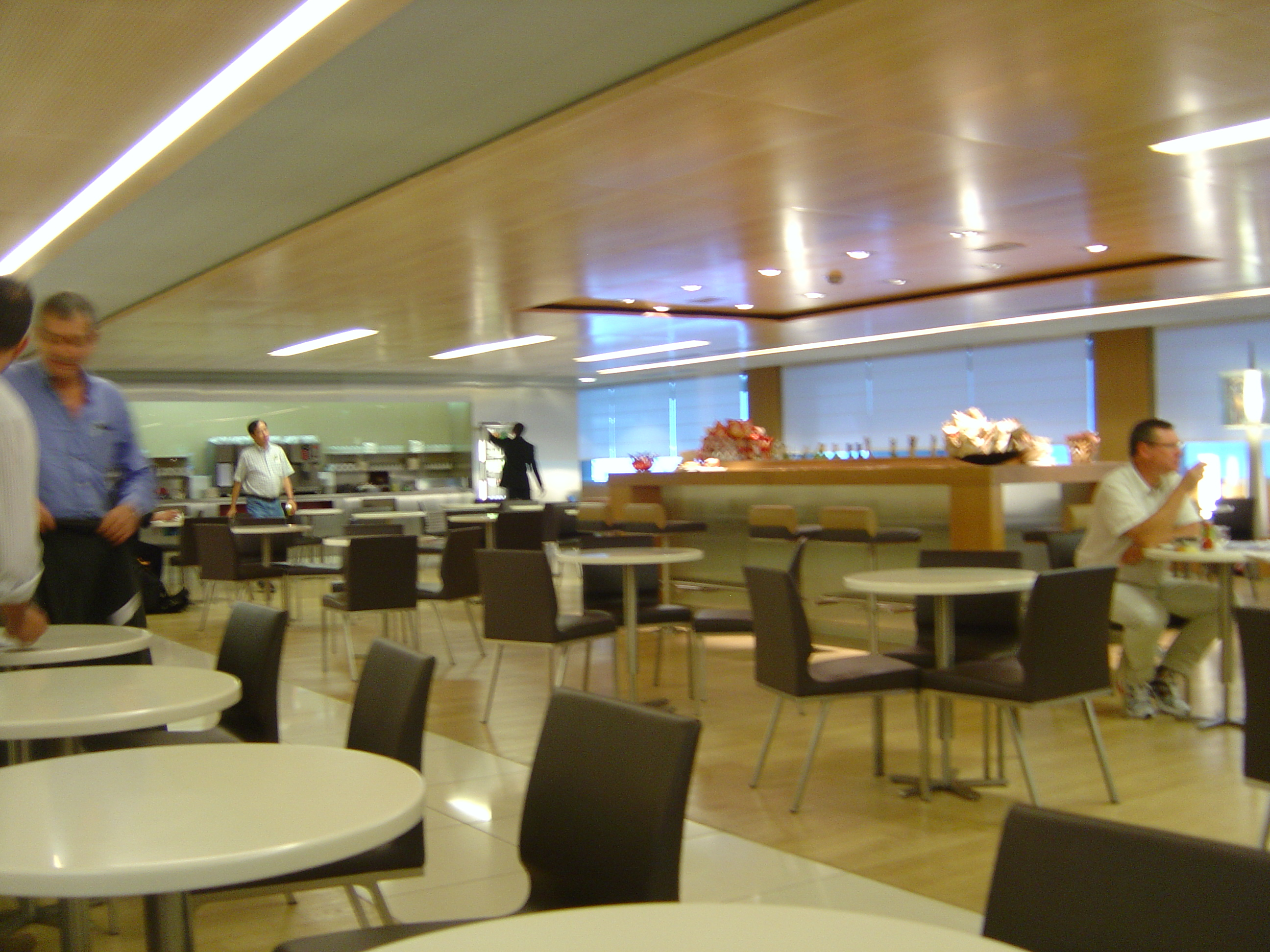 Air France l'Espace Affaires Business Lounge, CDG Airport 2E